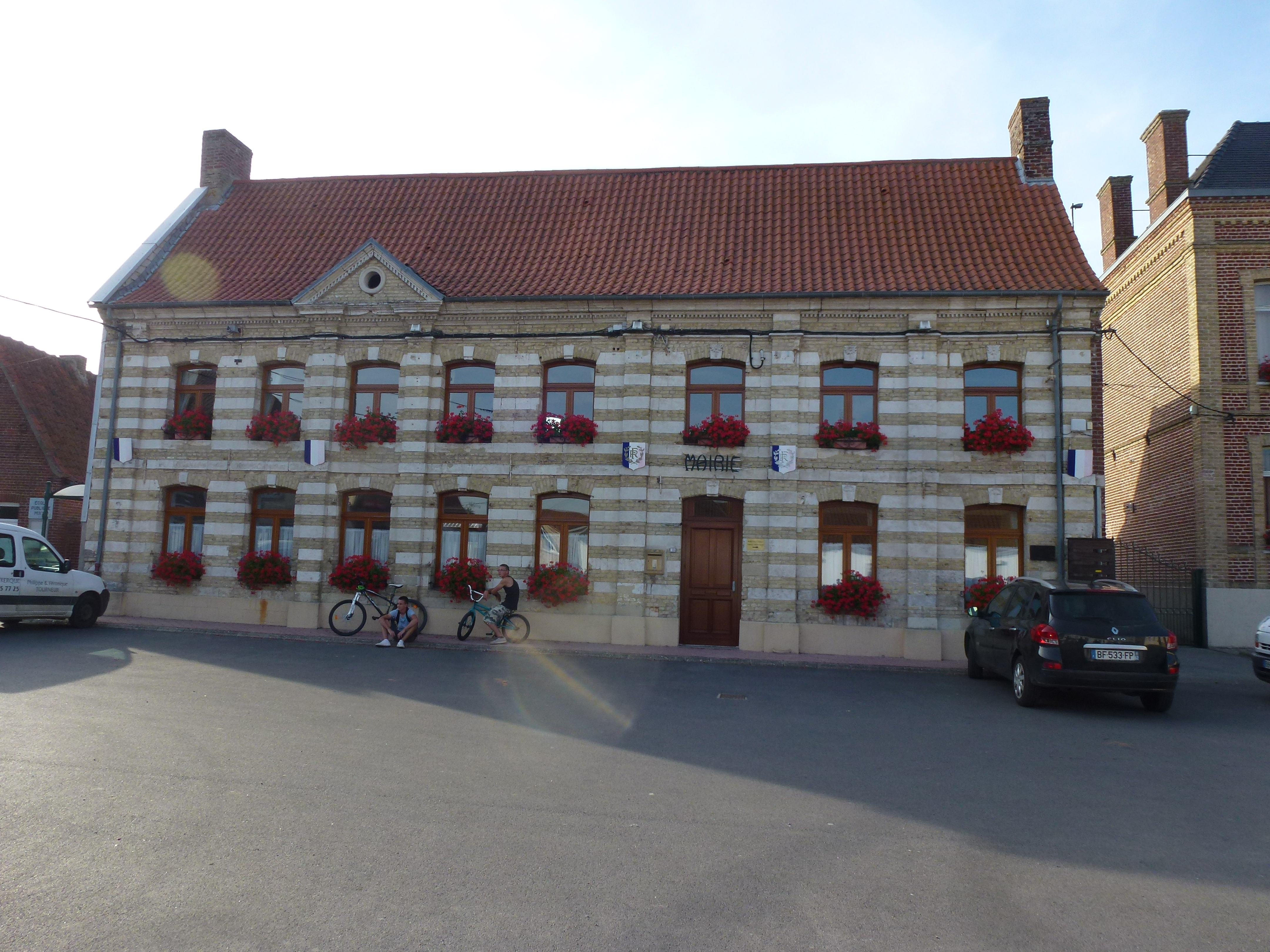 Zutkerque (Pas-de-Calais) mairie